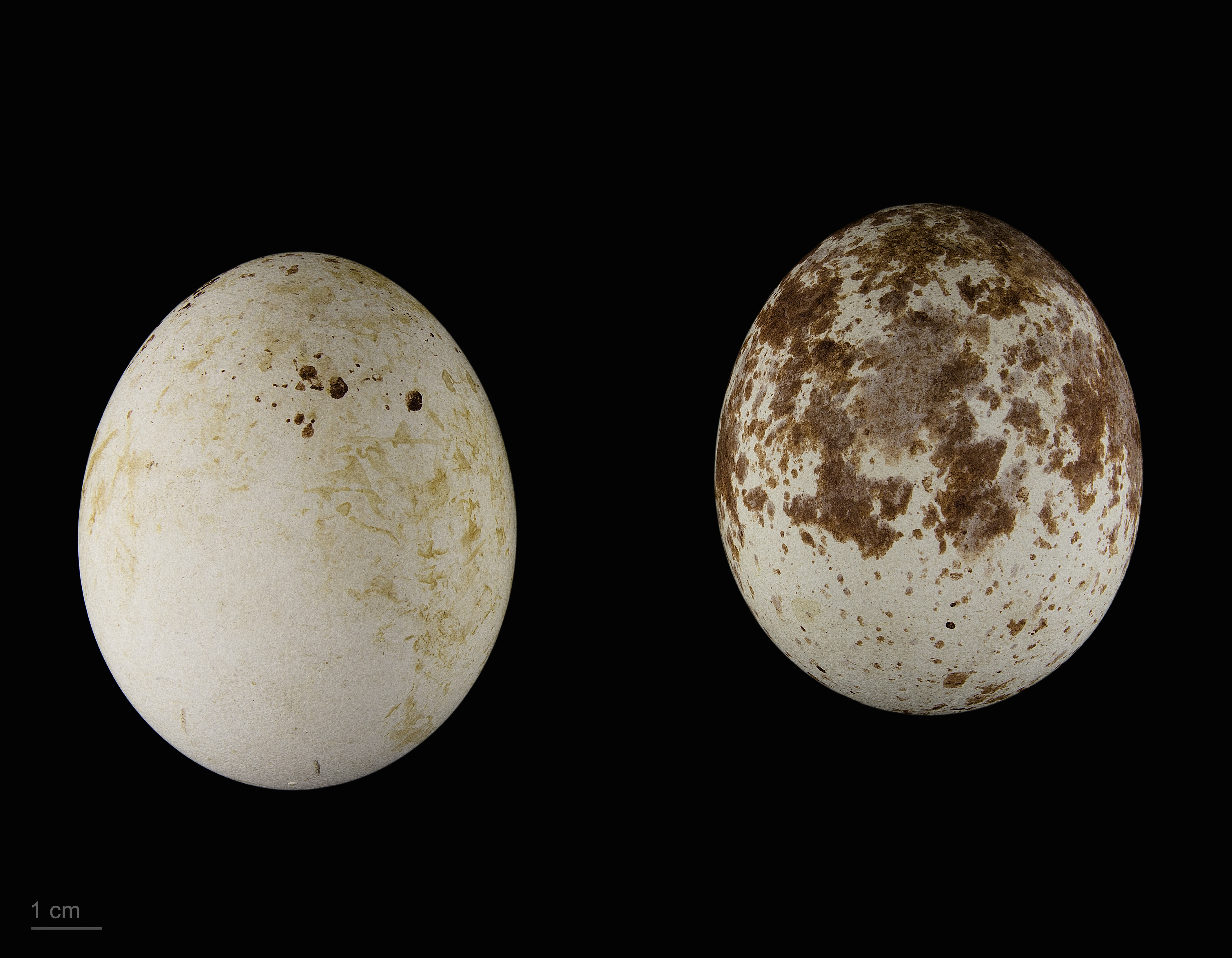 Eggs of lesser spotted eagle Two specimens of the same spawn ; collection of Jacques Perrin de Brichambaut.